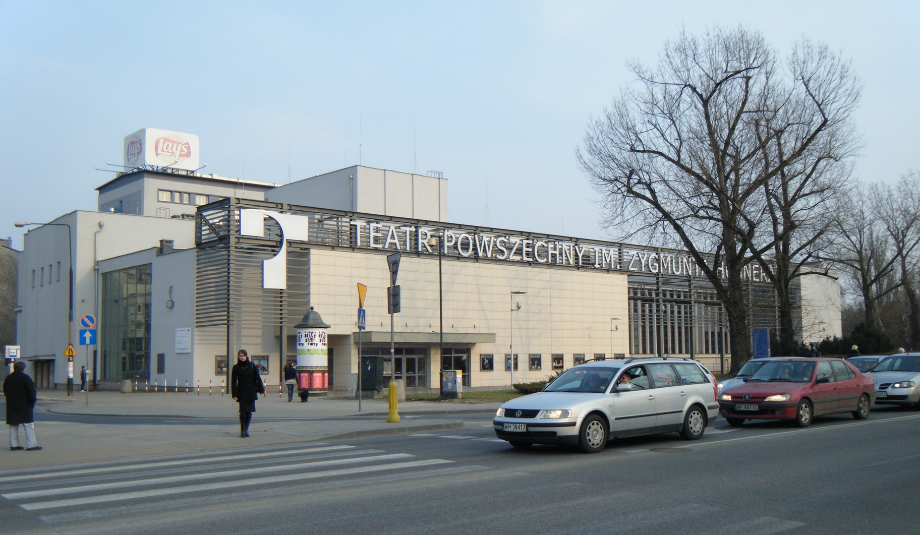 Powszechny Theatre in Warsaw